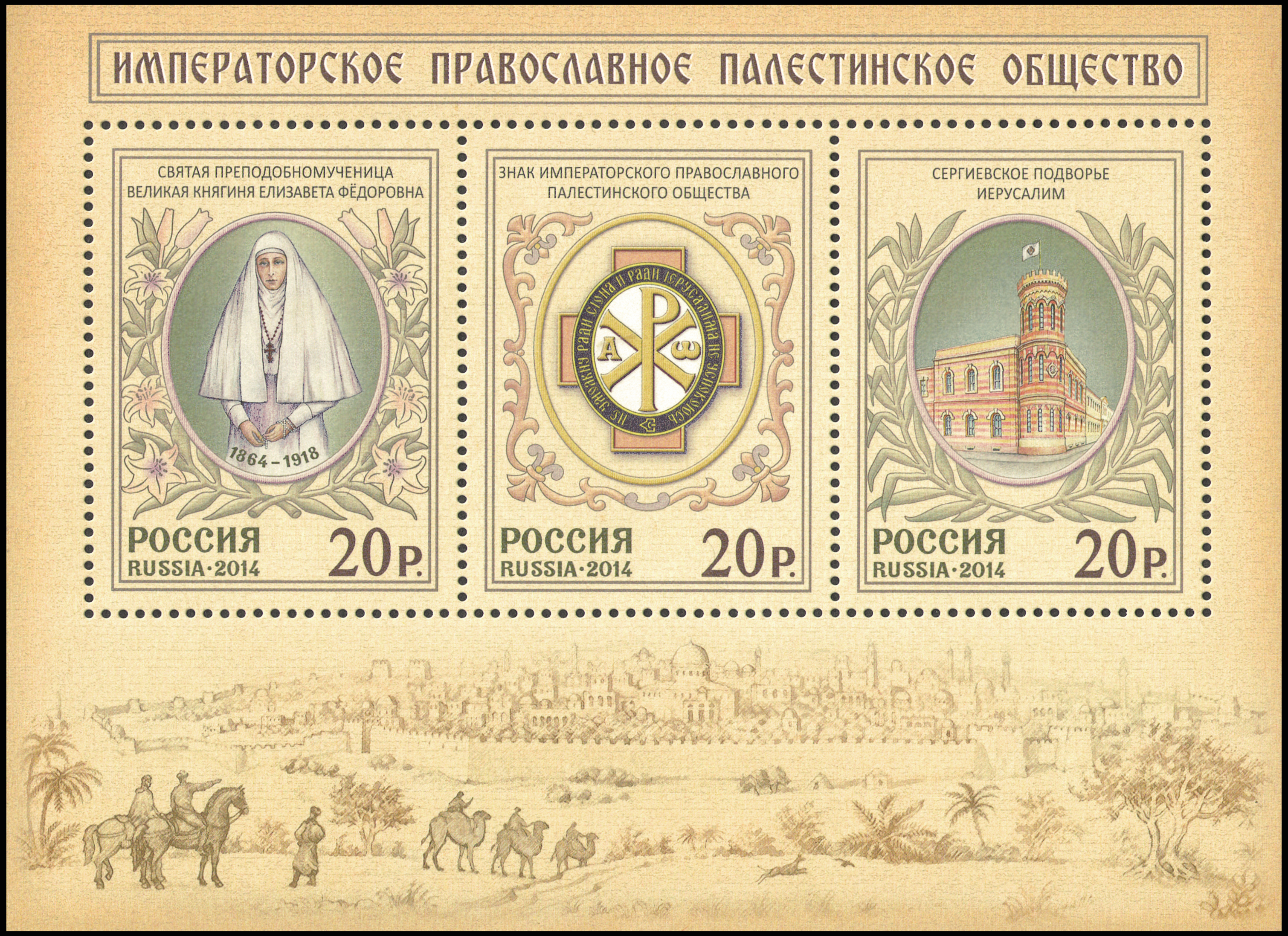 The Imperial Orthodox Palestine Society. The miniature sheet of Russia, (3 stamps×20 ₽), 29 October 2014, PTC Marka Catalogue No 1885—1887, Michel No 2102—2104 (Block 212). Offset printing. Perforation: frame 12×12½. Size of the miniature sheet: 126×92 mm. Size of a single stamp: 37×48.7 mm. Print run: 70,000 miniature sheets. No 1885No 1886No 1887 No 1885, 20 ₽: Saint venerable martyr Yelizaveta Fyodorovna (1864—1918), the second chairperson of the Imperial Orthodox Palestine Society; No 1886, 20 ₽: the emblem of the Imperial Orthodox Palestine Society; No 1887, 20 ₽: the Sergei Courtyard of the Russian Compound in Jerusalem.